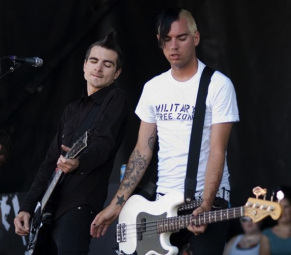 Justin Sane and Chris #2 of Anti-Flag. Taken on July 13, 2006 at Warped Tour.